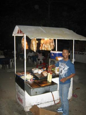 Chimichurri burger vendor at his night stand in Boca Chica, Dominican Republic